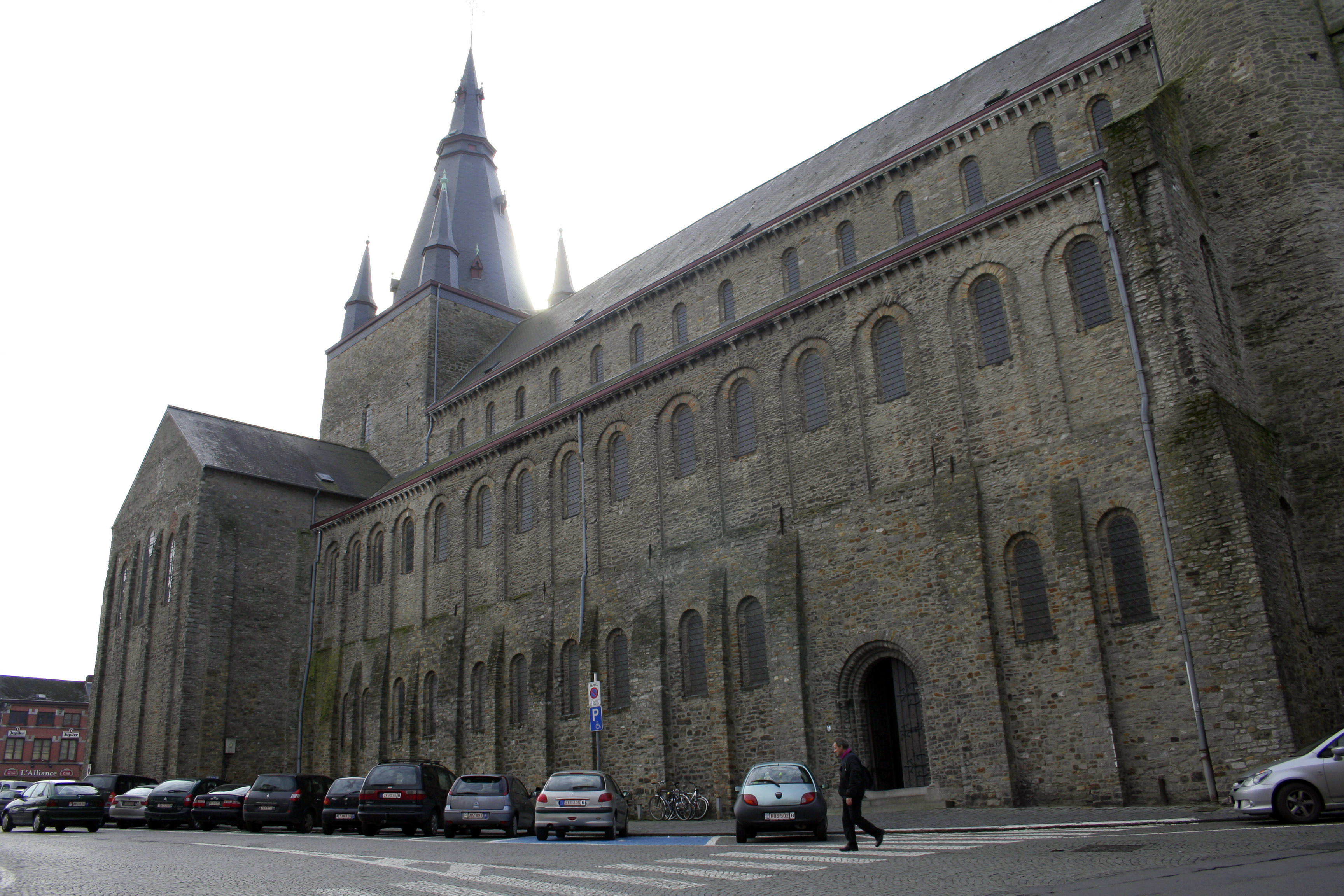 Soignies (Belgique), the Saint-Vincent's collegiate church (Xe siècle).